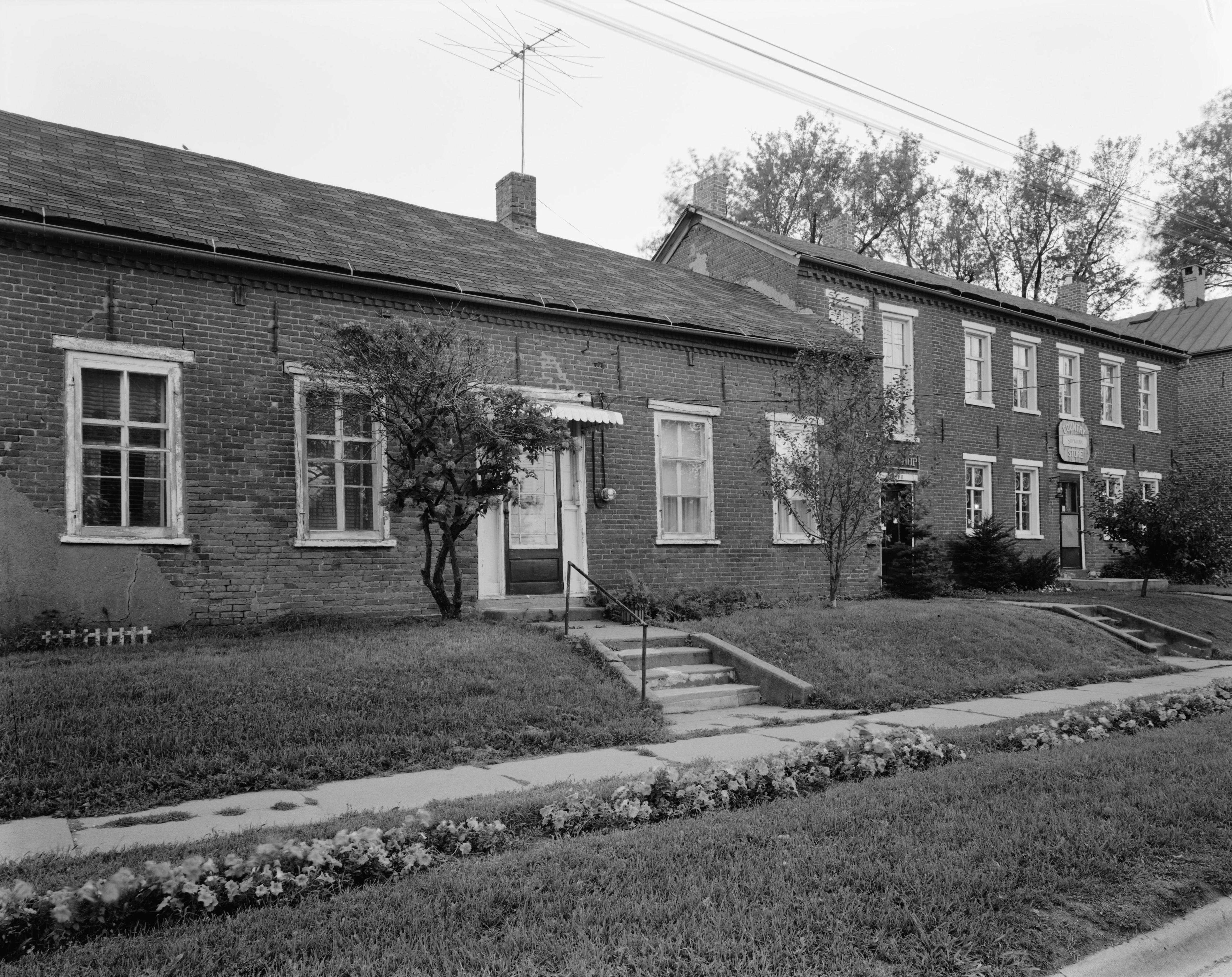 Front of the William Van Asch House and the Huibert Debooy Commercial Room, located at 1105, 1107, and 1109 W. Washington Street in Pella, Iowa, United States. These buildings were the location of the first classes of Central College. Built in 1854, the buildings are listed on the National Register of Historic Places.